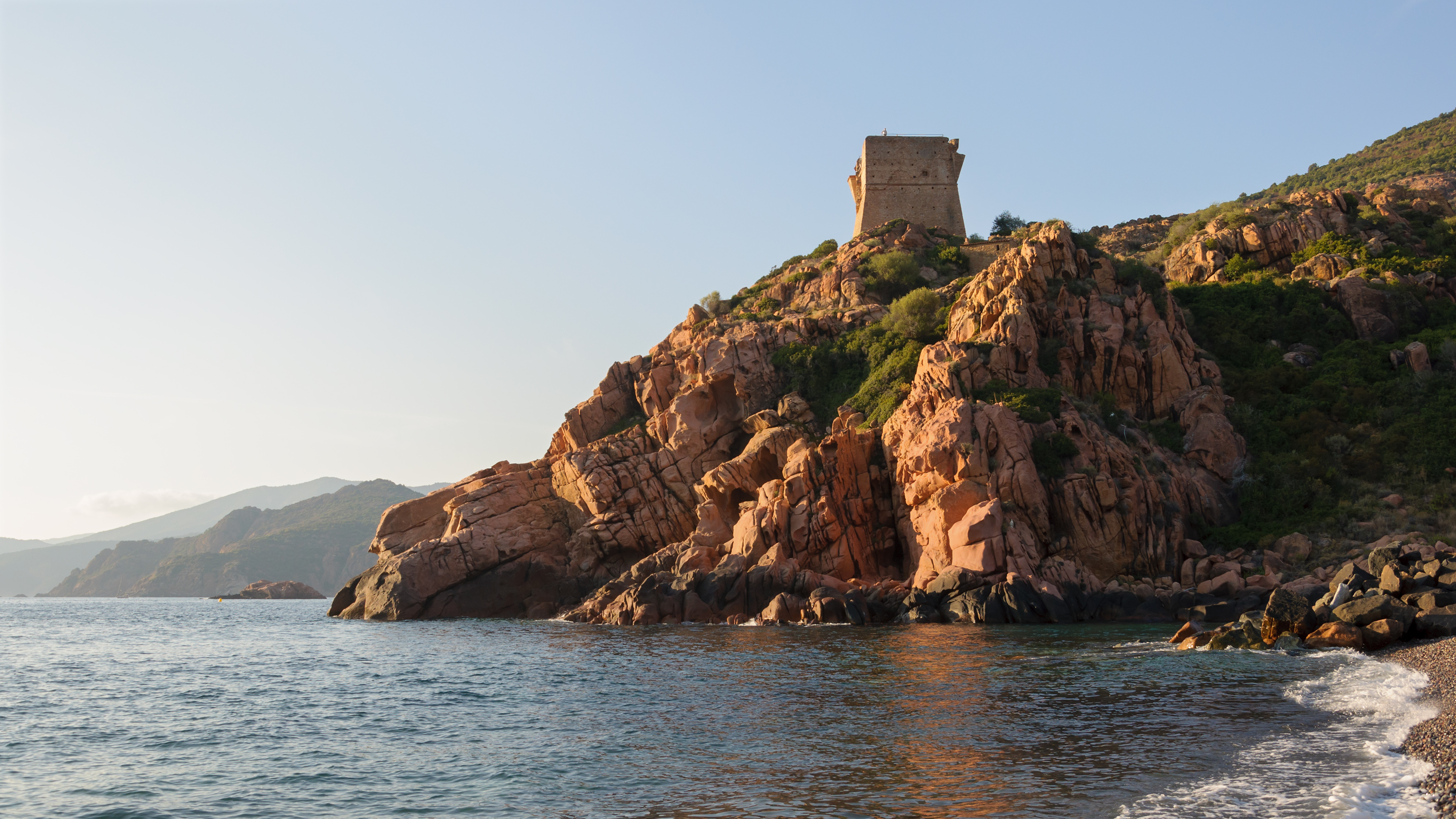 The Genoese tower in Porto, Ota, Corsica, France .